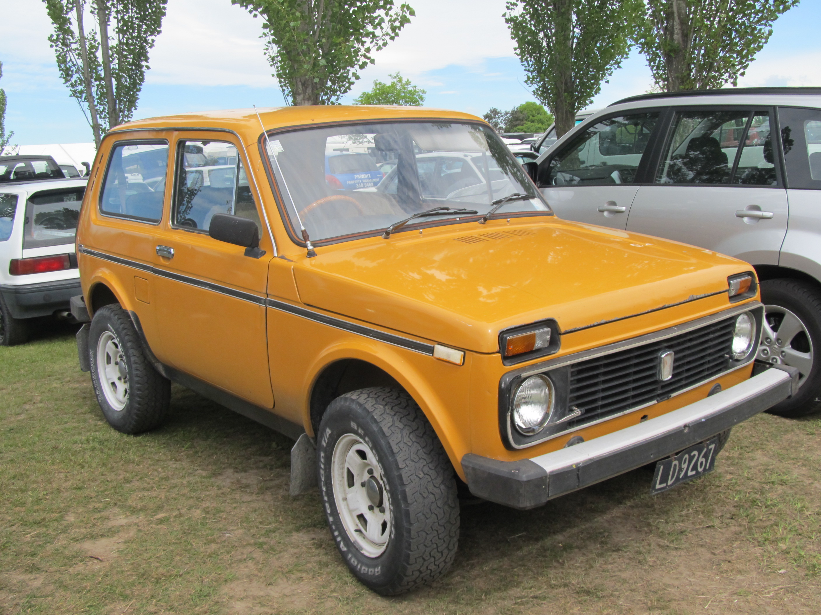 LD9267 This is definitely the oldest Niva I've ever seen! I saw it a few weeks prior to this event, piloted by a fairly old chap and towing a little trailer, and assumed it was just a trusty workhorse, but it would appear the owner is a classic racing enthusiast. Seen at the Wigram Revival at Powerbuilt Ruapuna Raceway late last month.